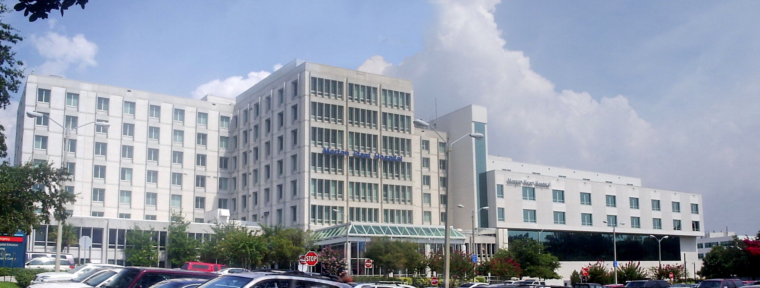 Morton plant hospital